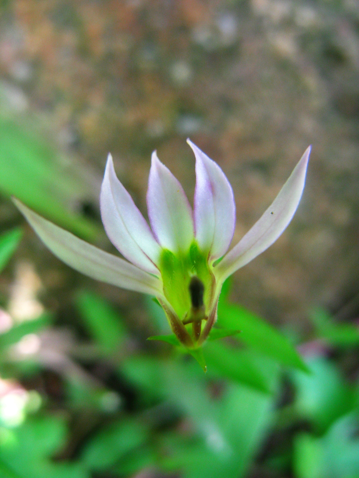 Lobelia chinensis, taken in Hong Kong.